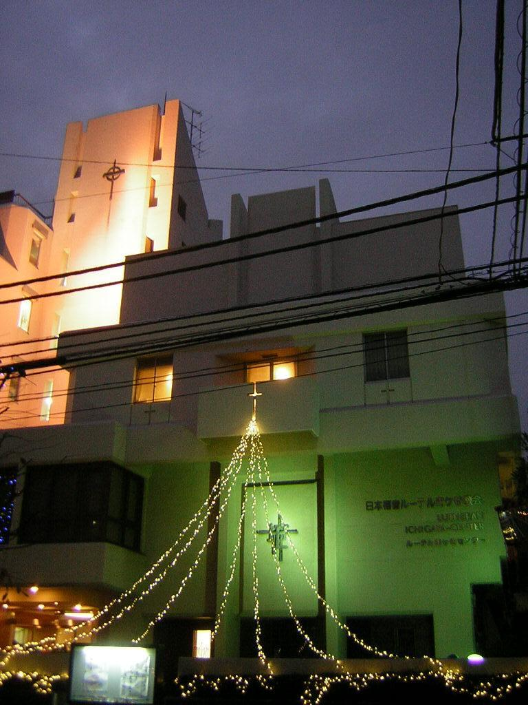 Japan Evangelical Lutheran ChurchIchigaya CHURCH